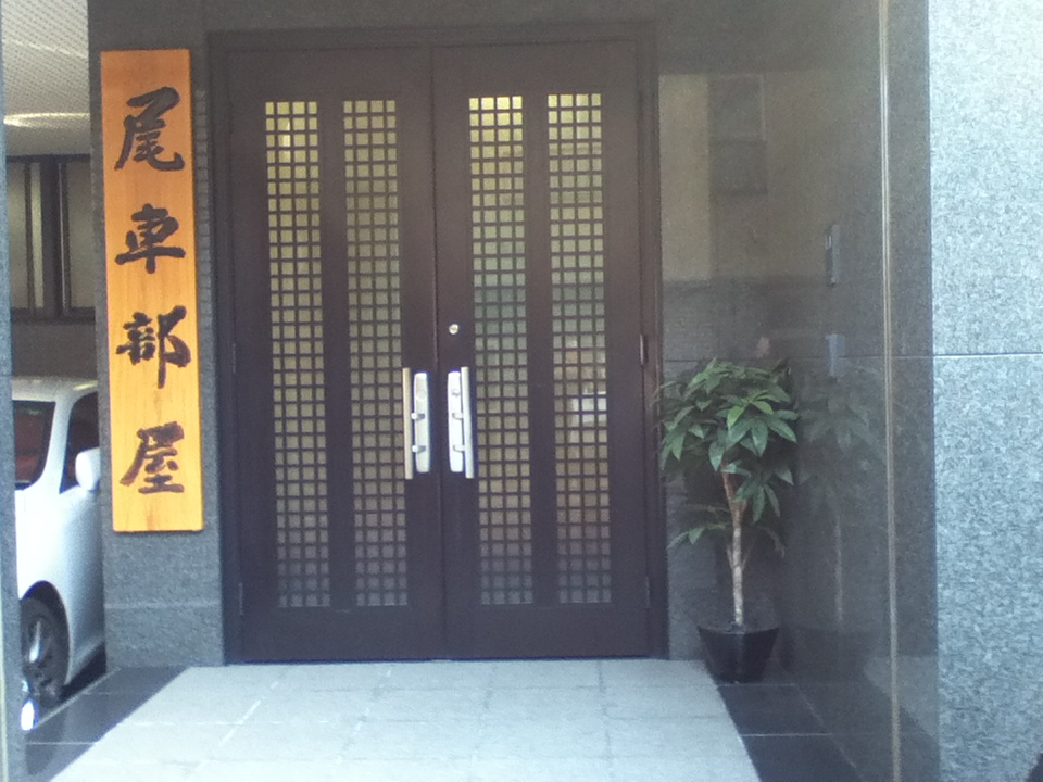 Front door of Oguruma sumo stable